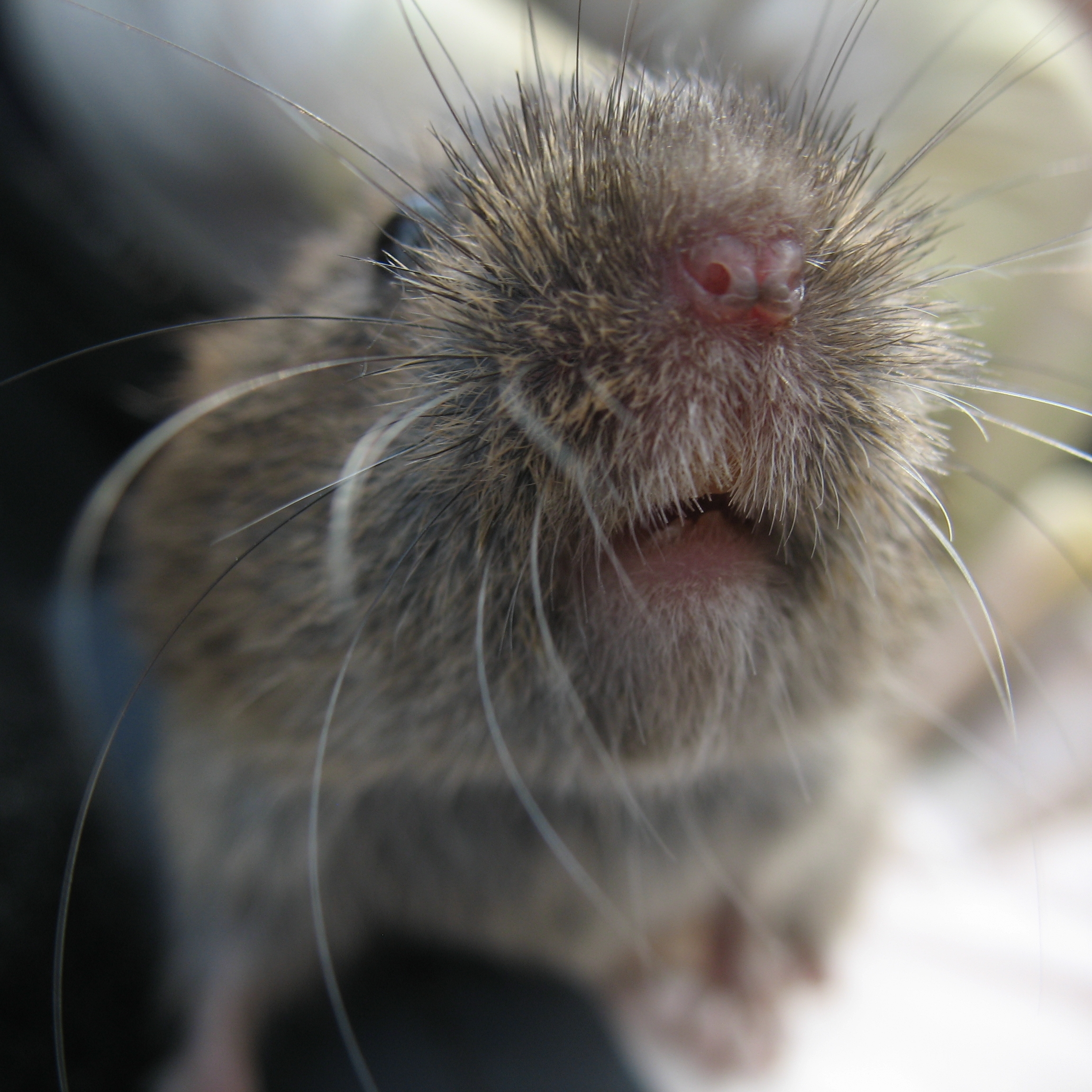 Field vole (Microtus agrestis) photographed near Stonehaven, Scotland.